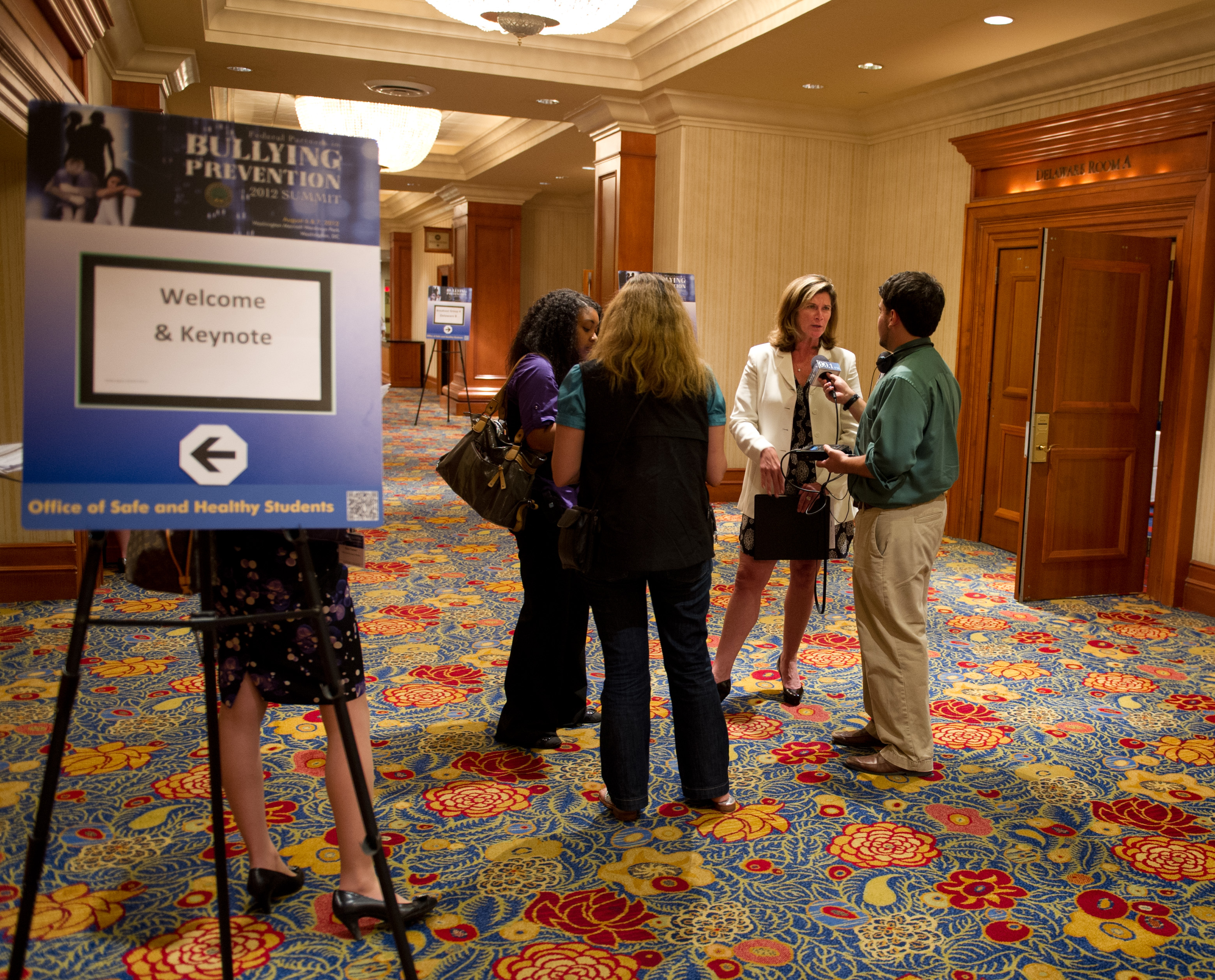 Every year, an annual bullying prevention summit consists of speakers looking to prevent bullying in youth.